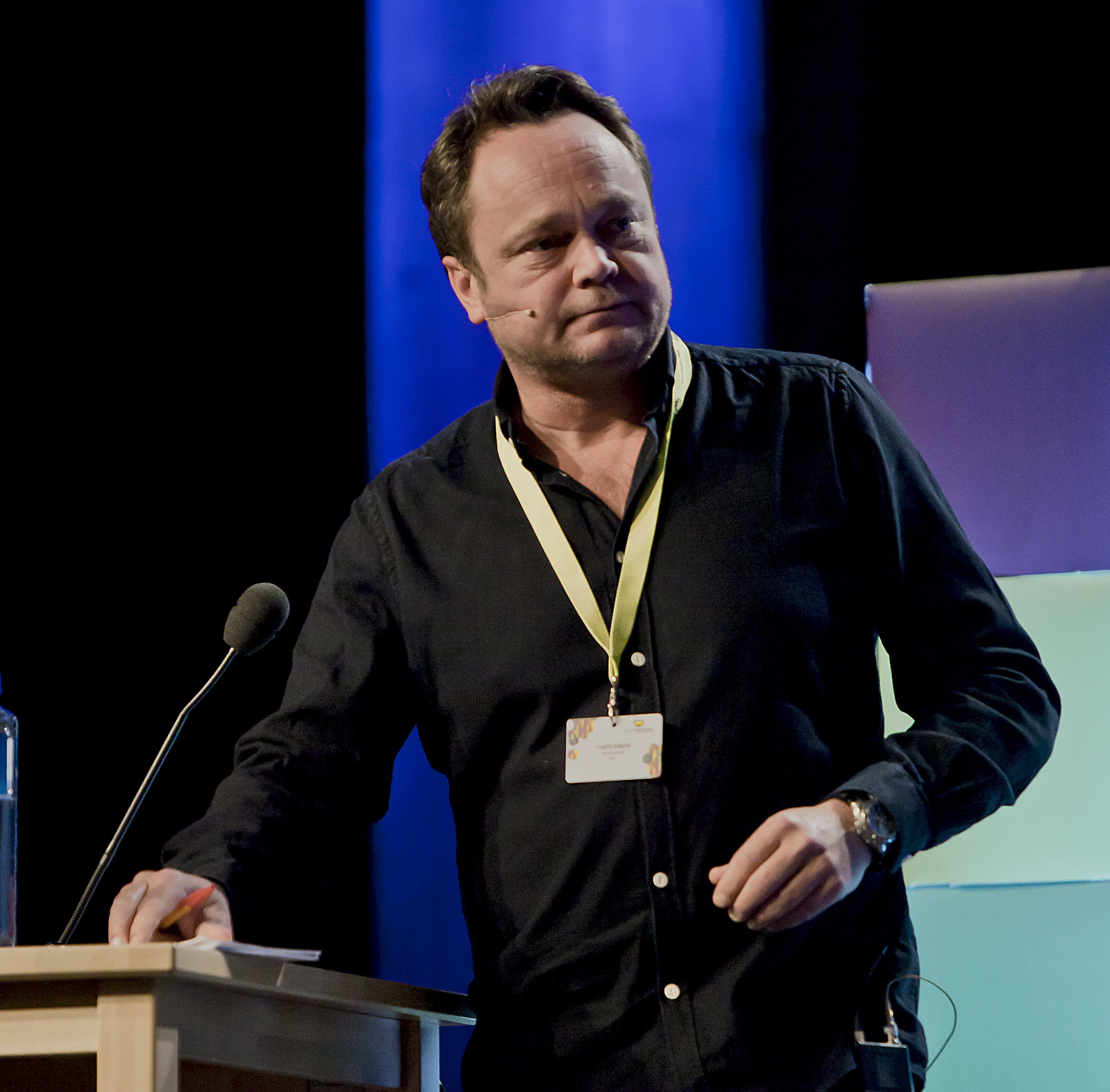 Foto: Jarle H. Moe